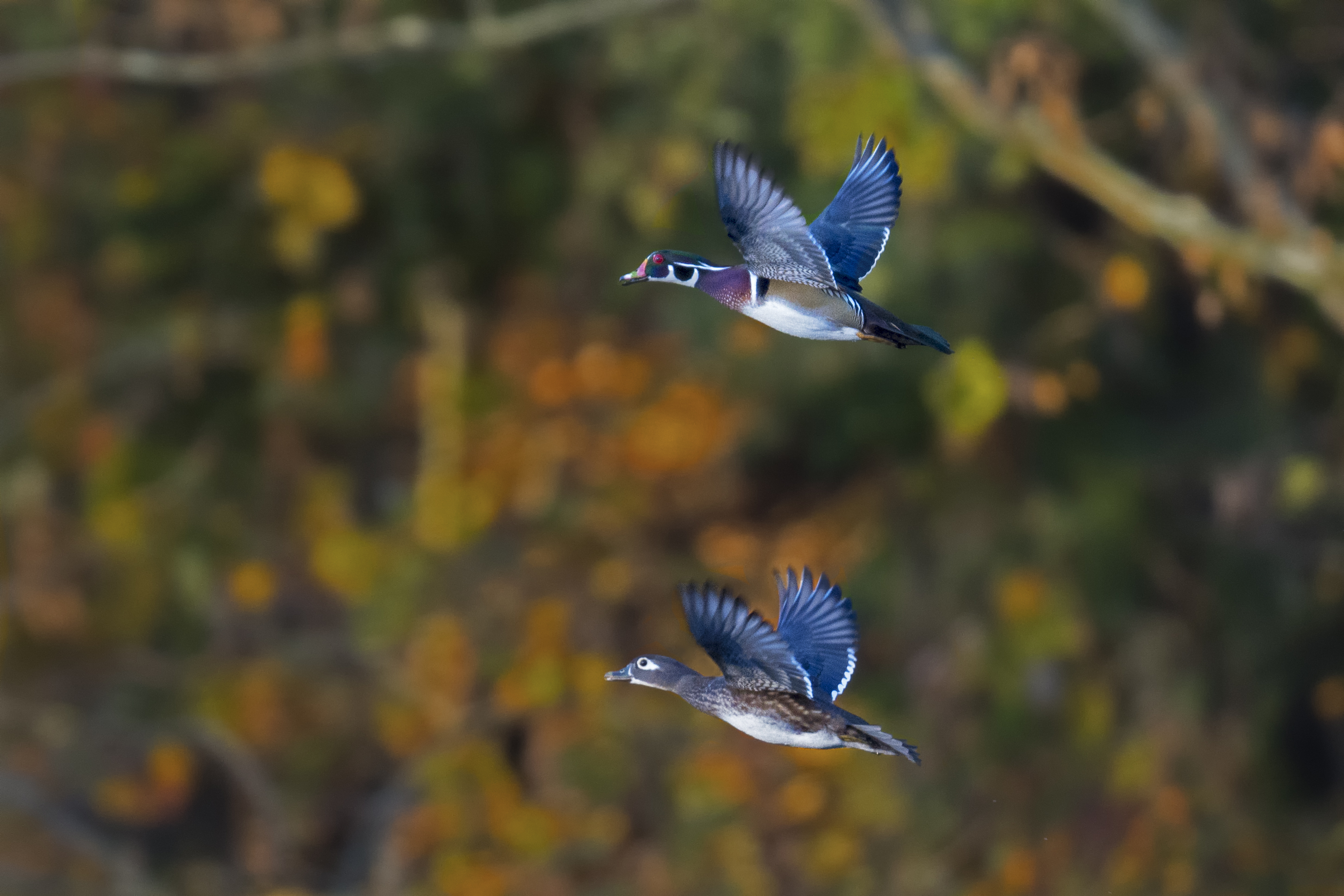 wood ducks in flight fall colors